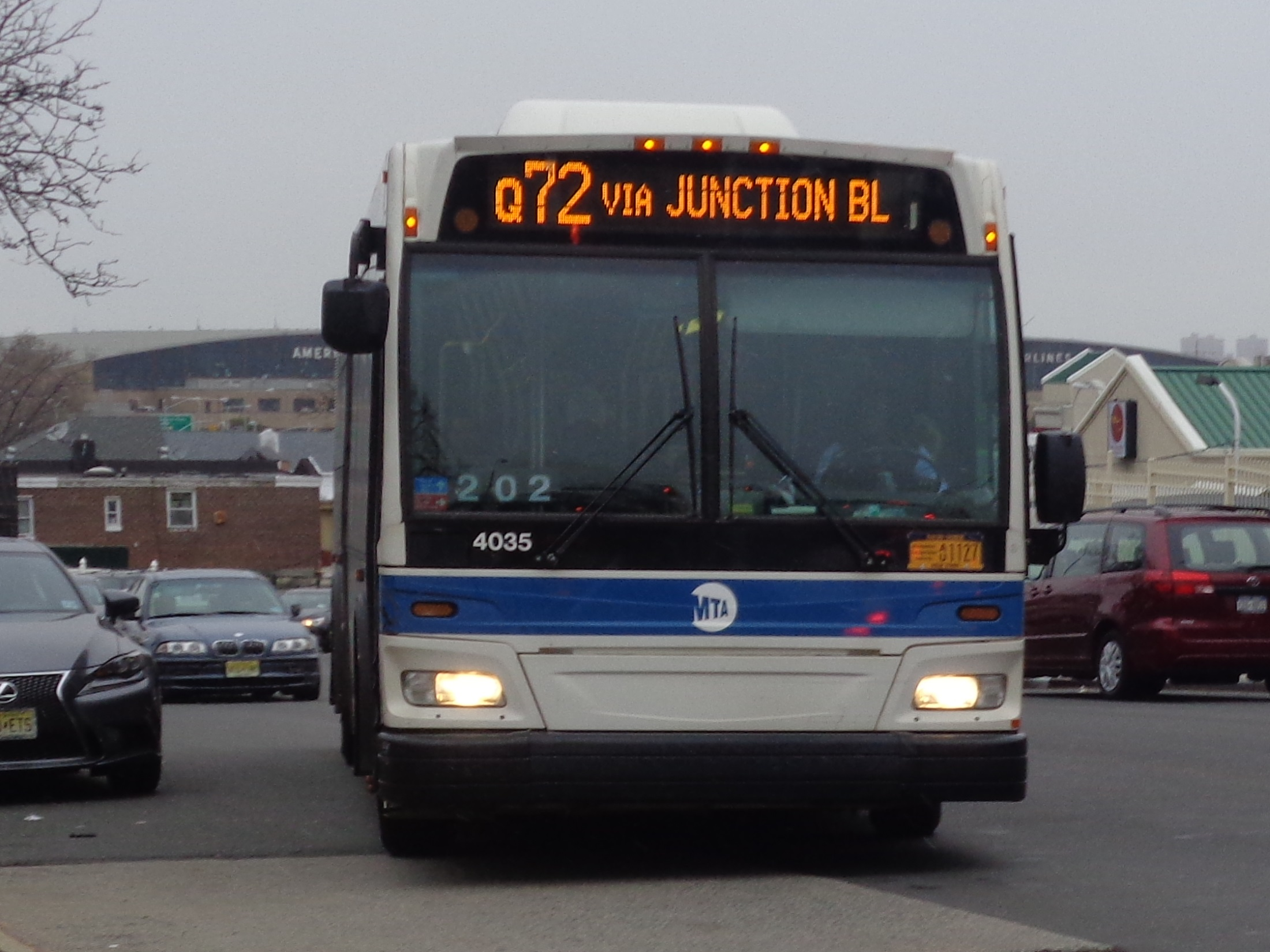 A Rego Park-bound Q72 bus at 94th Street and 23rd Avenue near LaGuardia Airport in East Elmhurst, Queens.